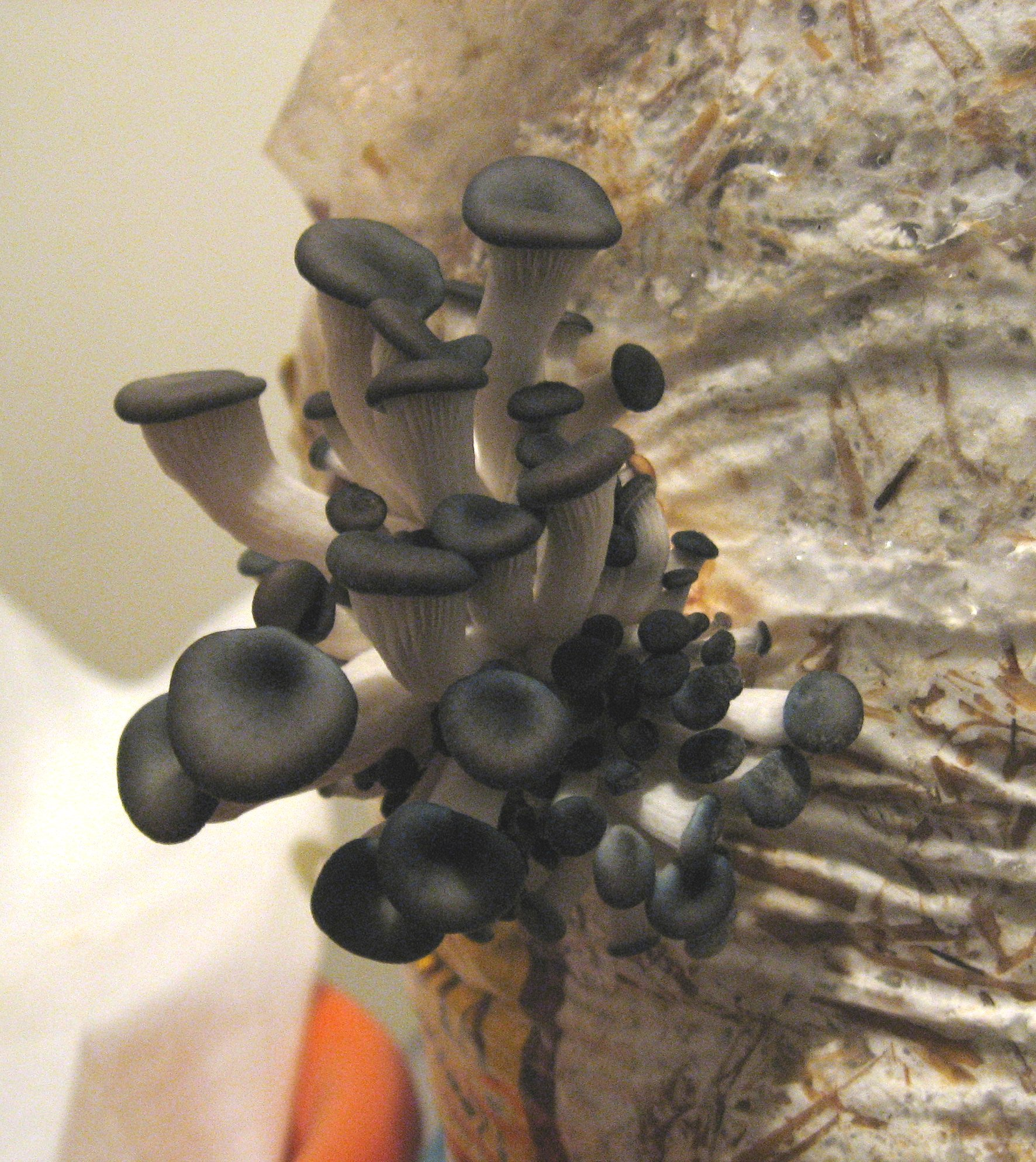 At home cultivation of edible mushrooms of genus Pleurotus in a bag of straw.